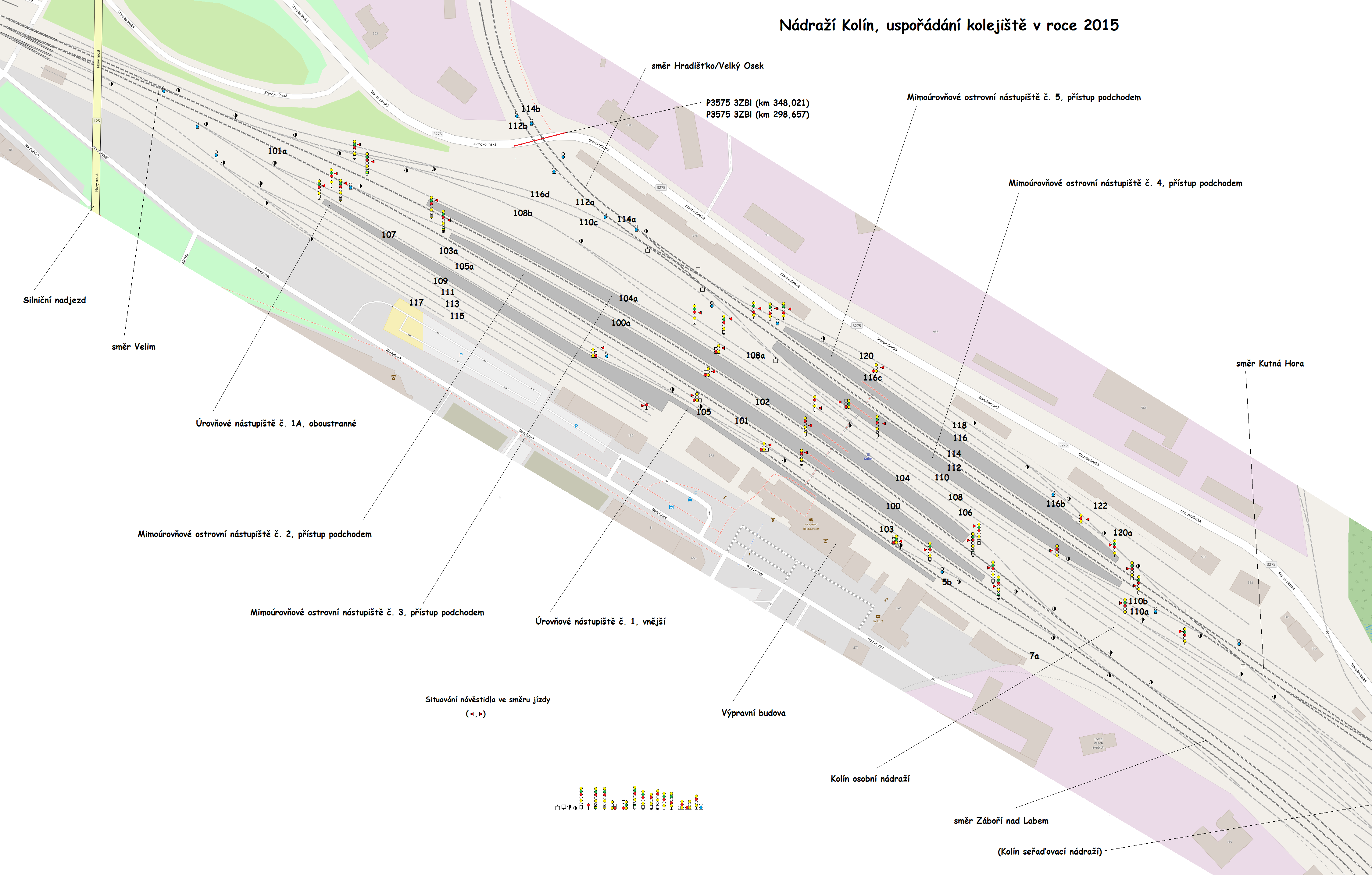 Kolín train station (Czech Republic). OpenStreetMap image of map of Kolín, 50°01′31″N 15°12′48″E / 50.02536°N 15.21321°E, from